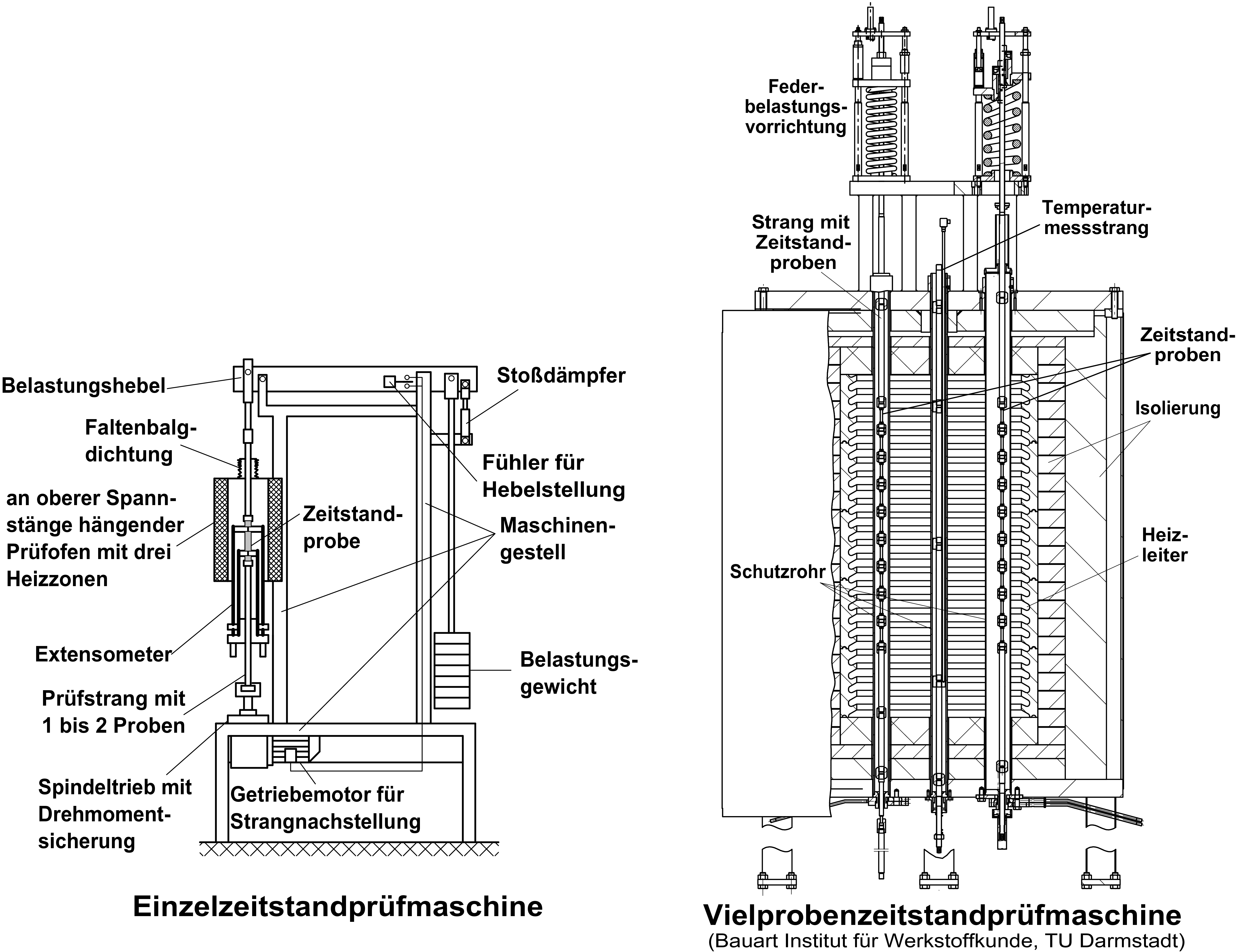 single-and_multi-specimen_creep_testing_machine